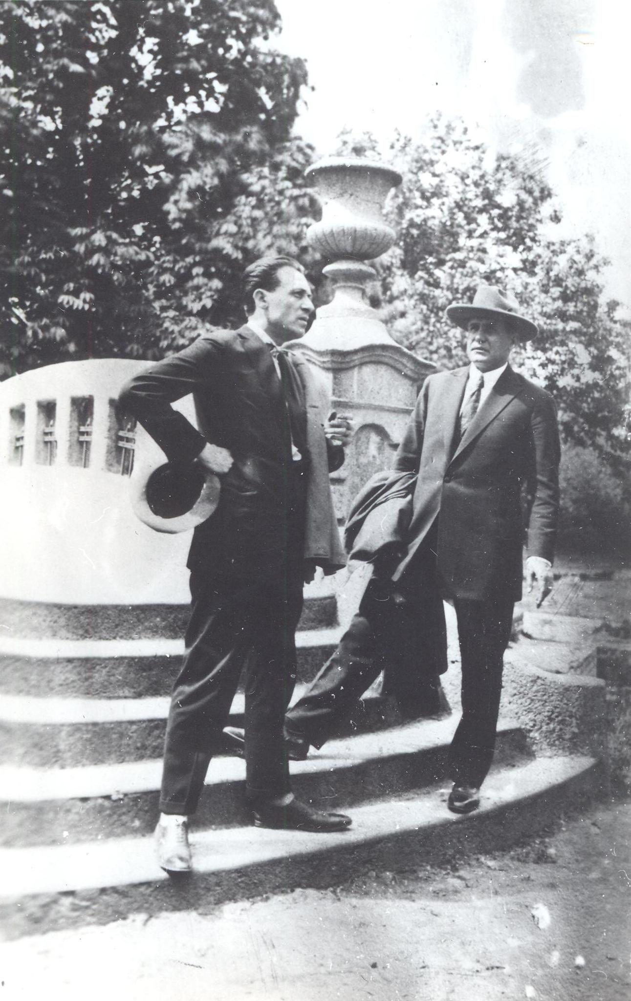 Bulgarian Painter Dechko Uzunov (1899-1986) and Bulgarian Writer and Painter Sirak Skitnik (1883-1943) in Borisova gradina.